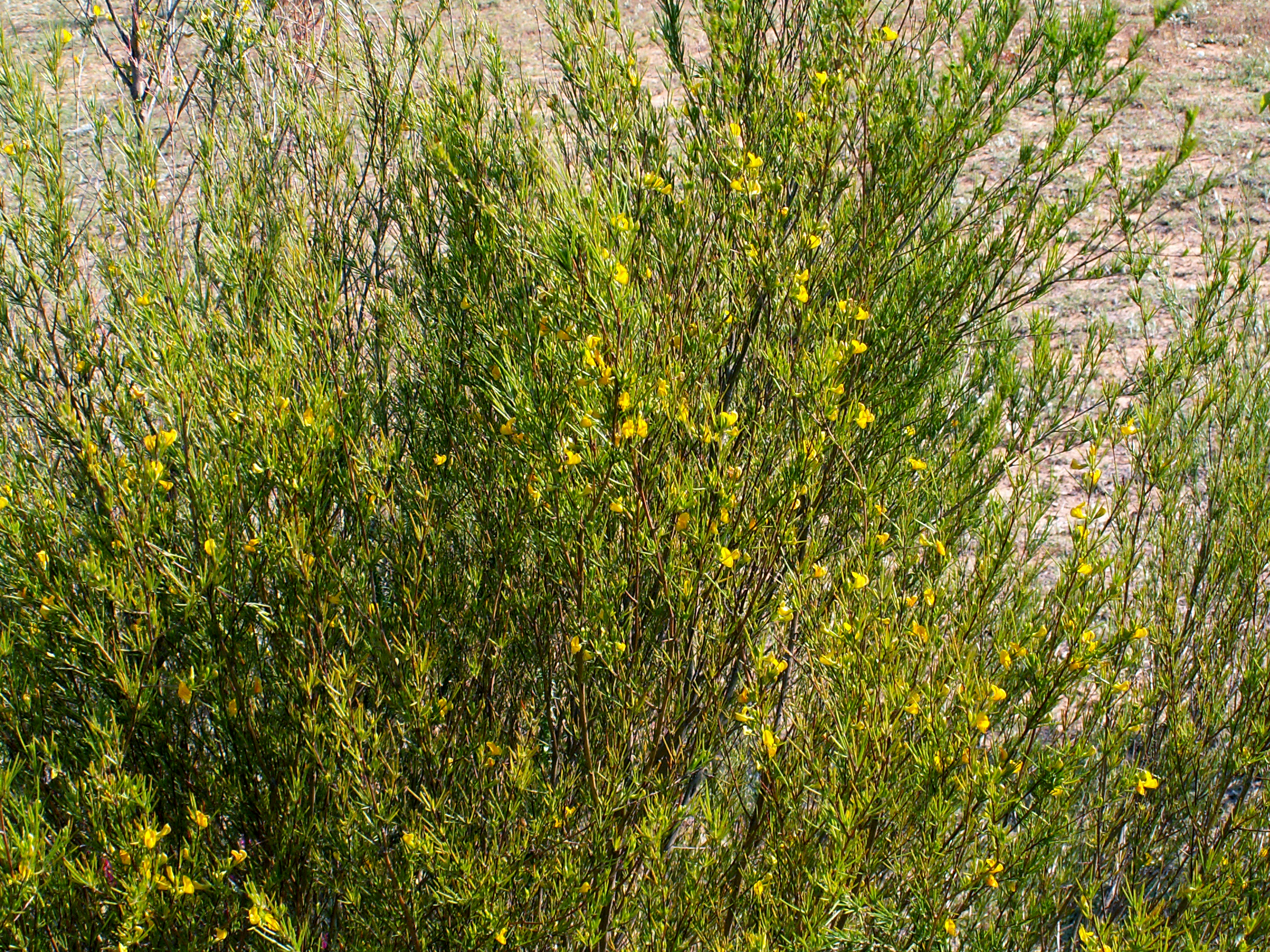 Rooibos, Aspalathus linearis (N.L.Burm.) R.Dahlgr., Clanwilliam, Western Cape, South Africa